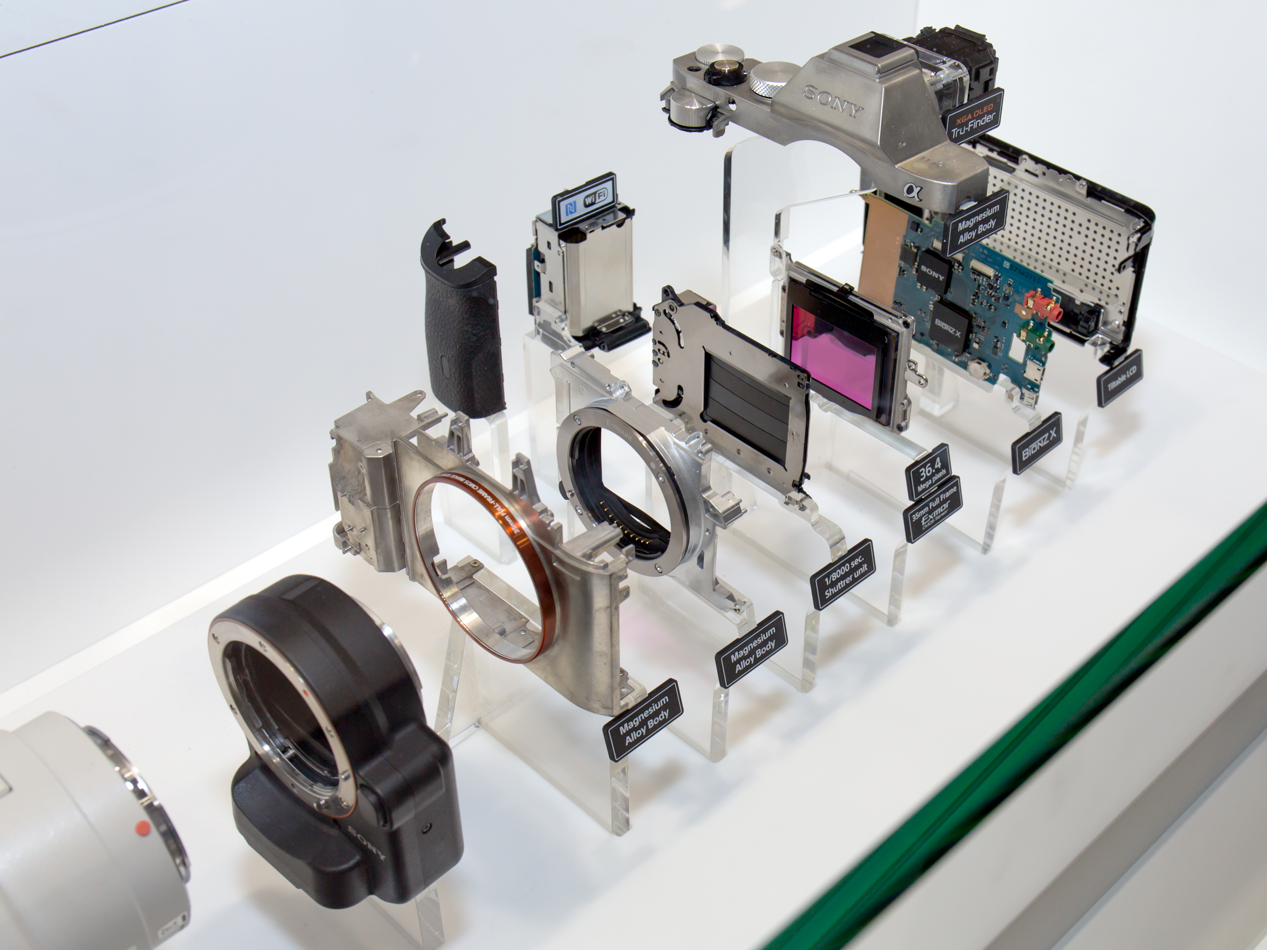 CP+ 2014: 2013 Sony Alpha 7R